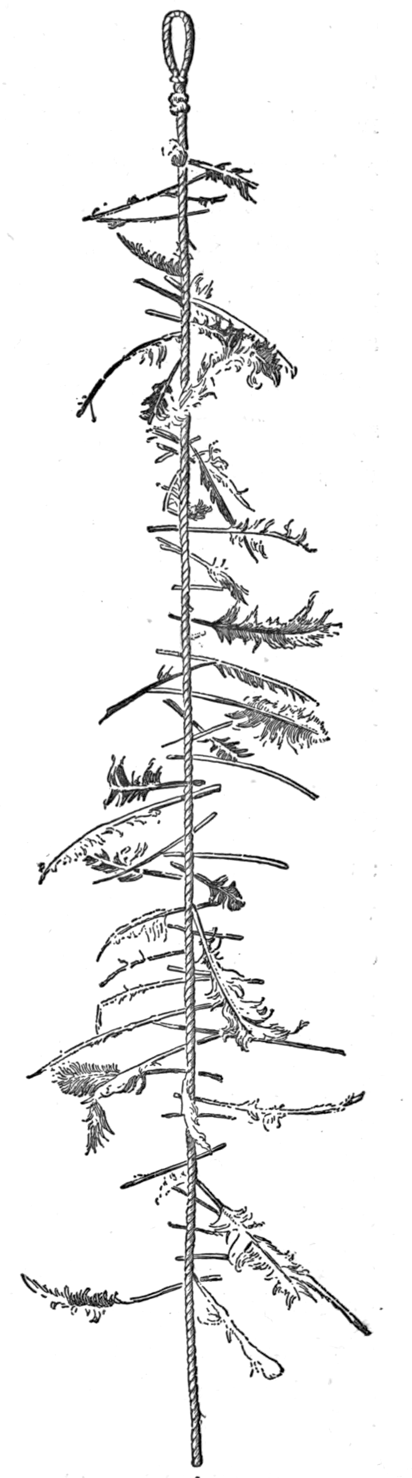 Scan of illustration found at page 1, a "witch's ladder".